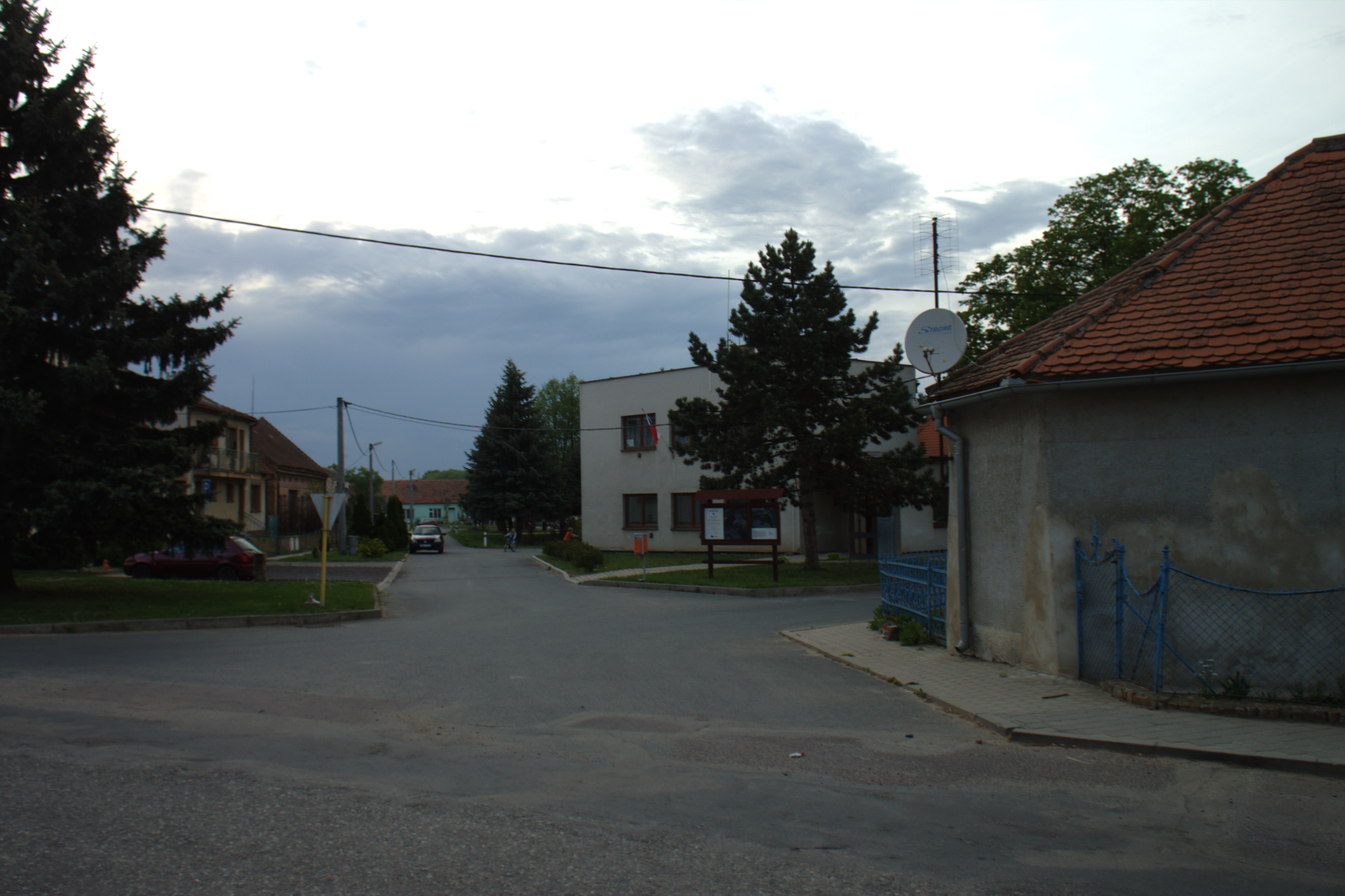 A road in the village of Borotice, South Moravian Region, CZ